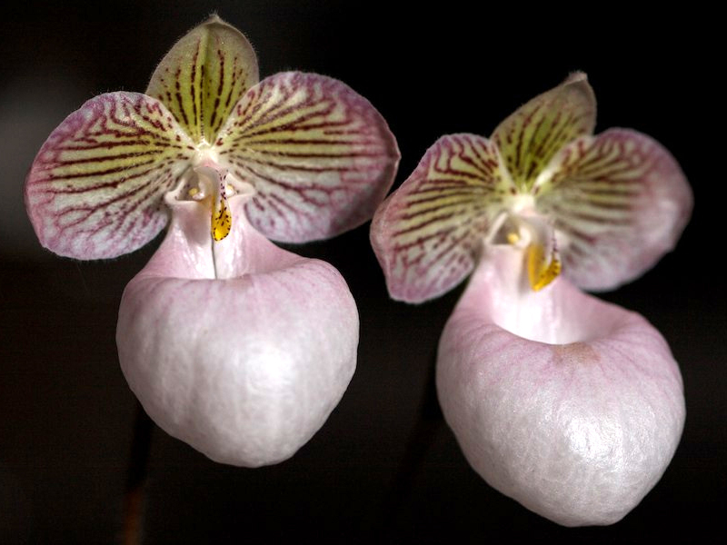 Paphiopedilum micranthum